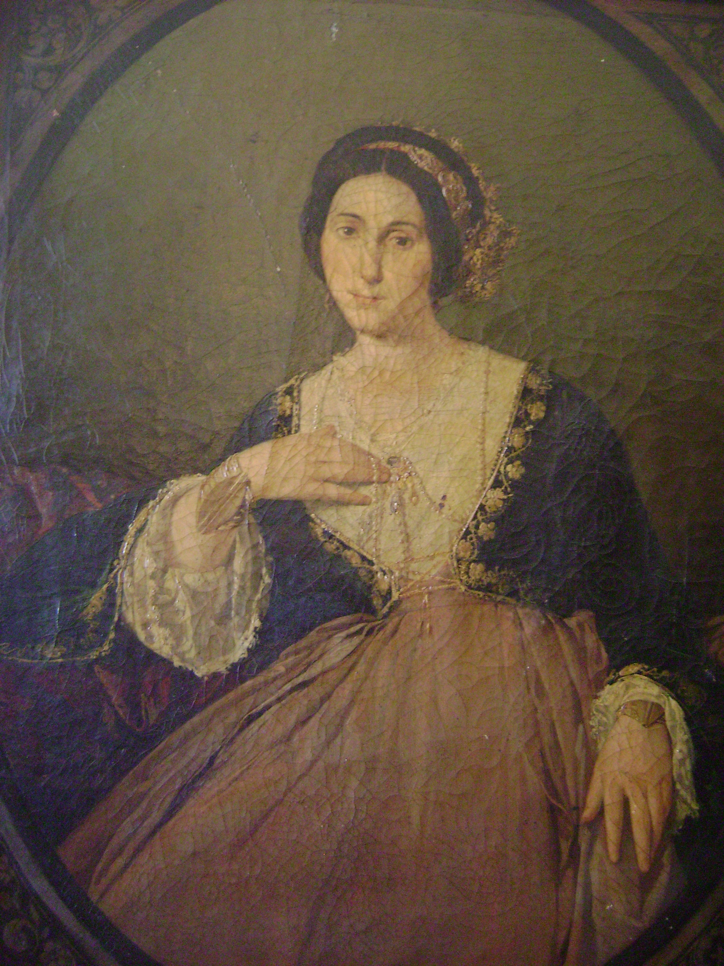 Christina Ioustini Chatziapostolou